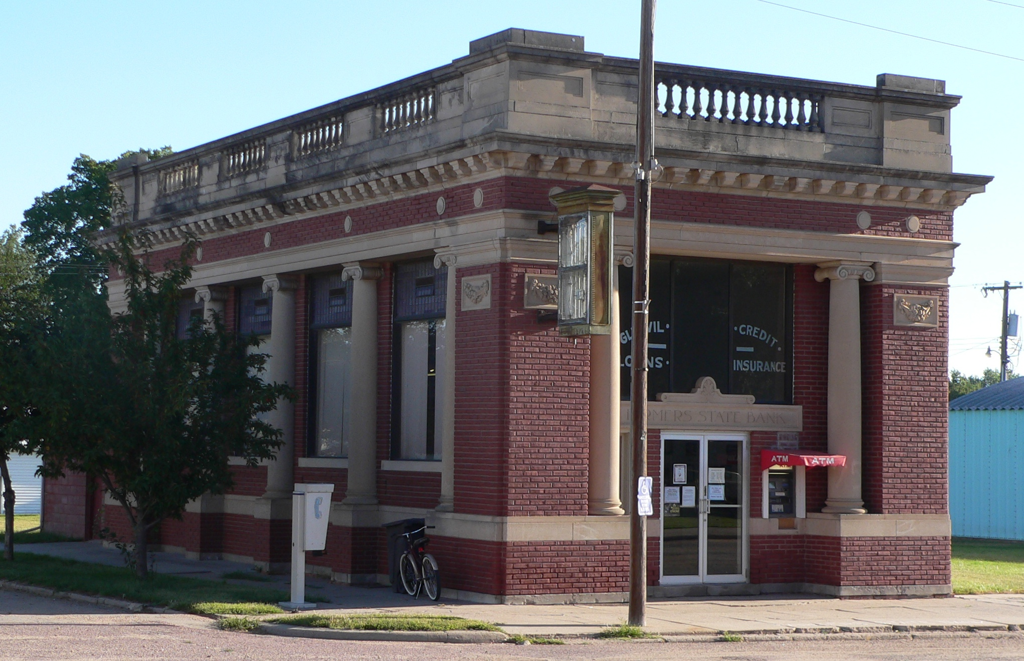 Farmers State Bank in Glenvil, Nebraska; seen from the southwest. The building is on the northeast corner of 3rd Street and Winters Avenue.